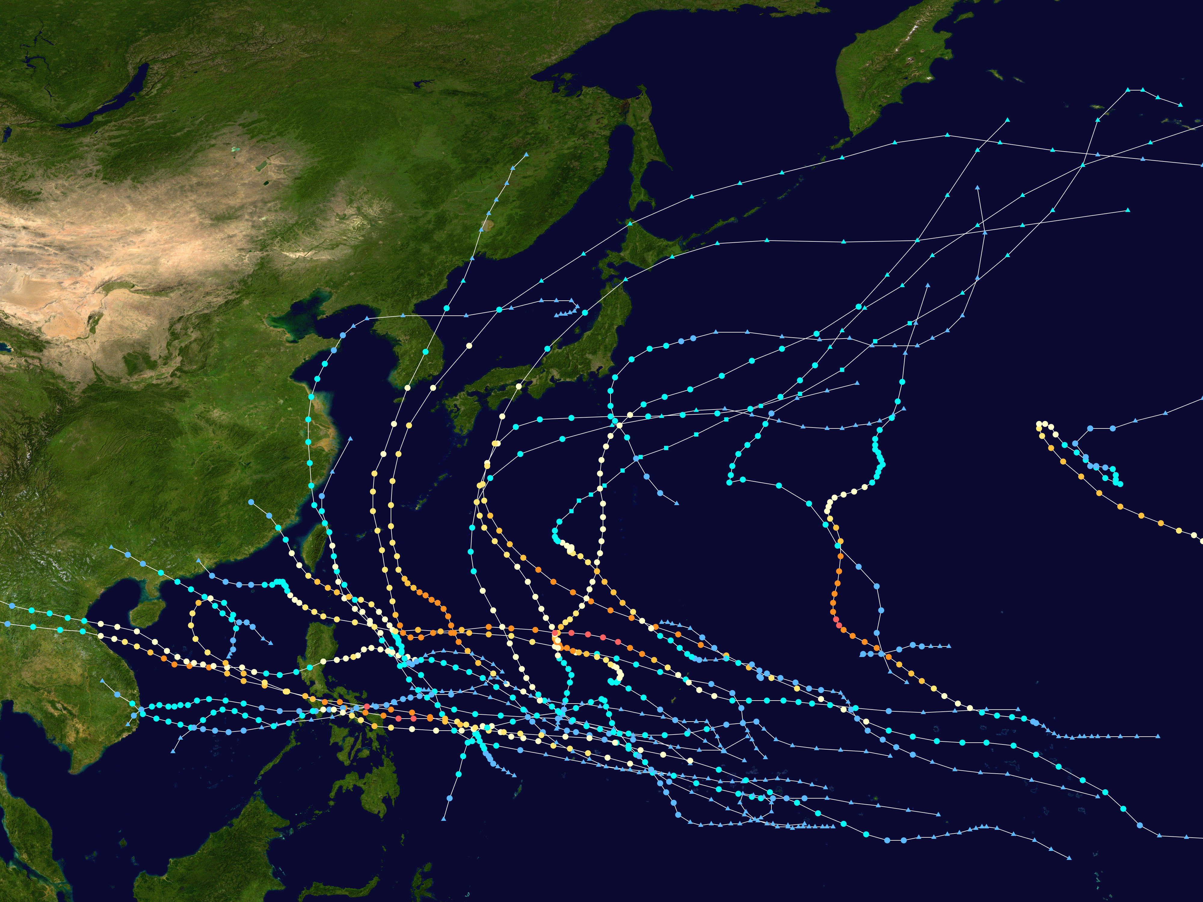 This map shows the tracks of all tropical cyclones in the 1987 Pacific typhoon season. The points show the location of each storm at 6-hour intervals. The colour represents the storm's maximum sustained wind speeds as classified in the Saffir-Simpson Hurricane Scale (see below), and the shape of the data points represent the type of the storm. Saffir–Simpson scale Tropical depression≤38 mph≤62 km/h Category 3111–129 mph178–208 km/h Tropical storm39–73 mph63–118 km/h Category 4130–156 mph209–251 km/h Category 174–95 mph119–153 km/h Category 5≥157 mph≥252 km/h Category 296–110 mph154–177 km/h Unknown Storm type Tropical cyclone Subtropical cyclone Extratropical cyclone / Remnant low / Tropical disturbance / Monsoon depression